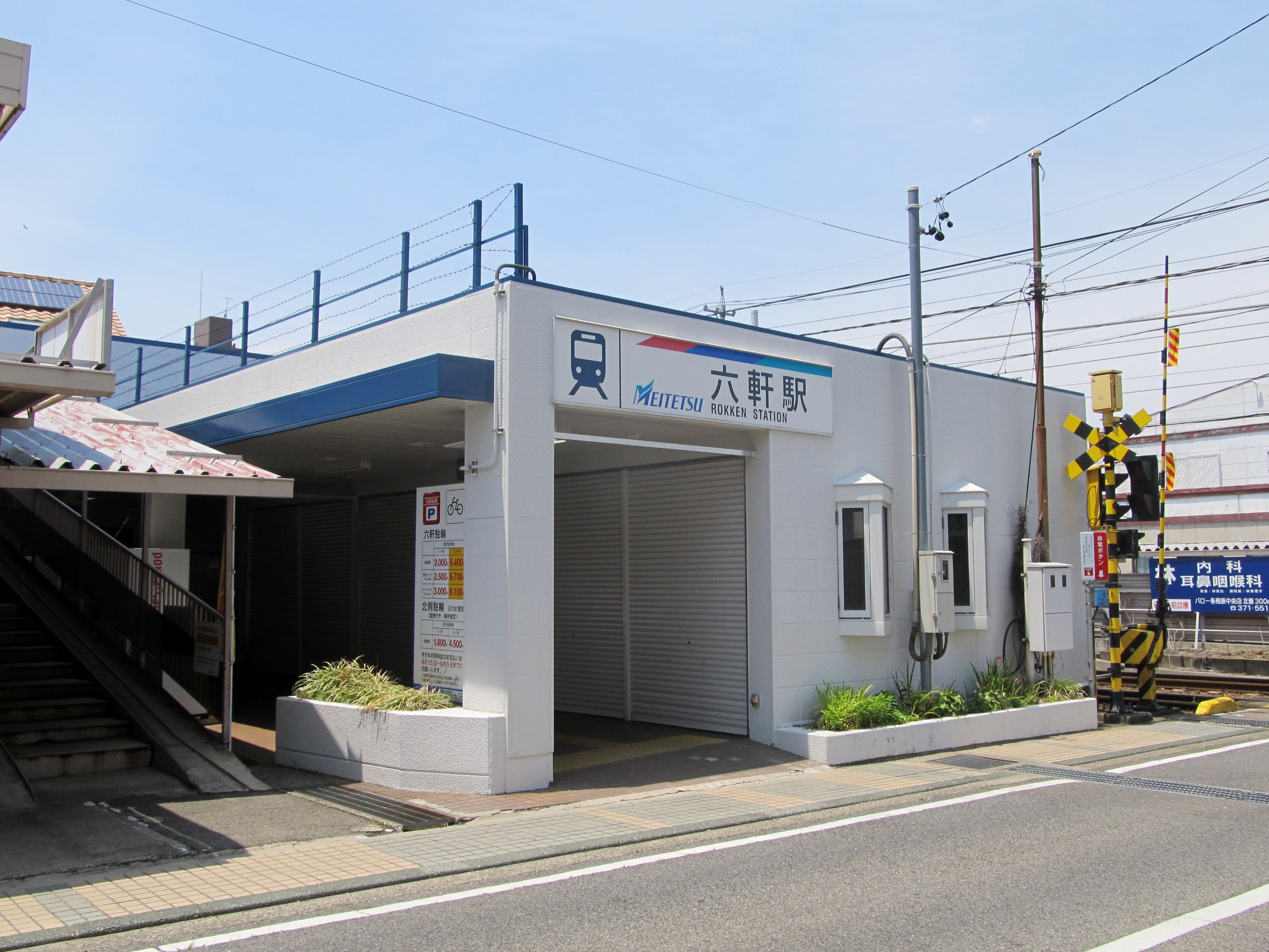 Nagoya Railroad Kakamigahara Line Rokken Station Building